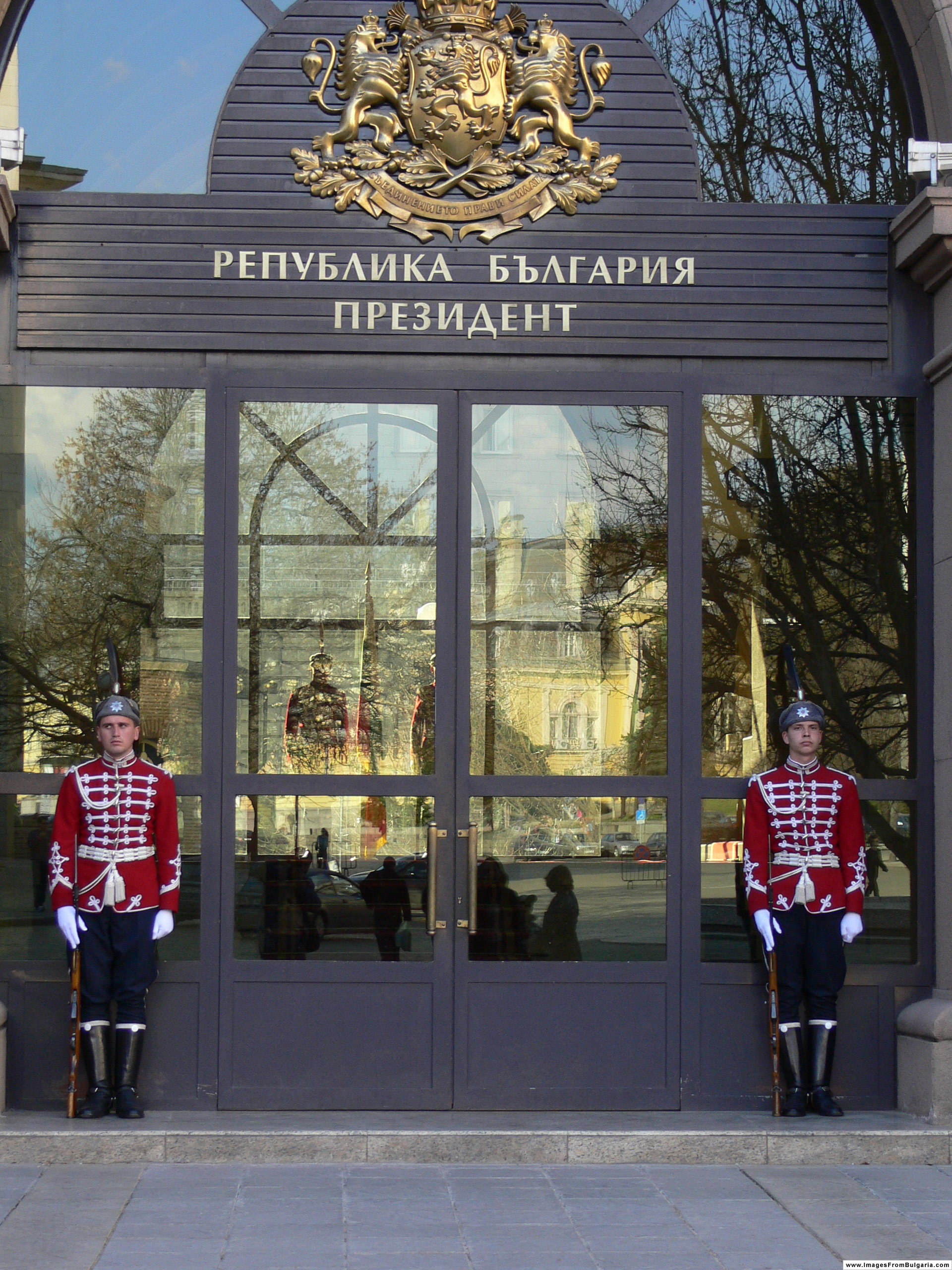 The guards of the Bulgarian Presidency. Sofia, Bulgaria